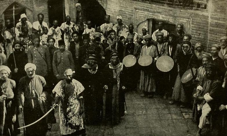 People of Najaf, ca. 1914